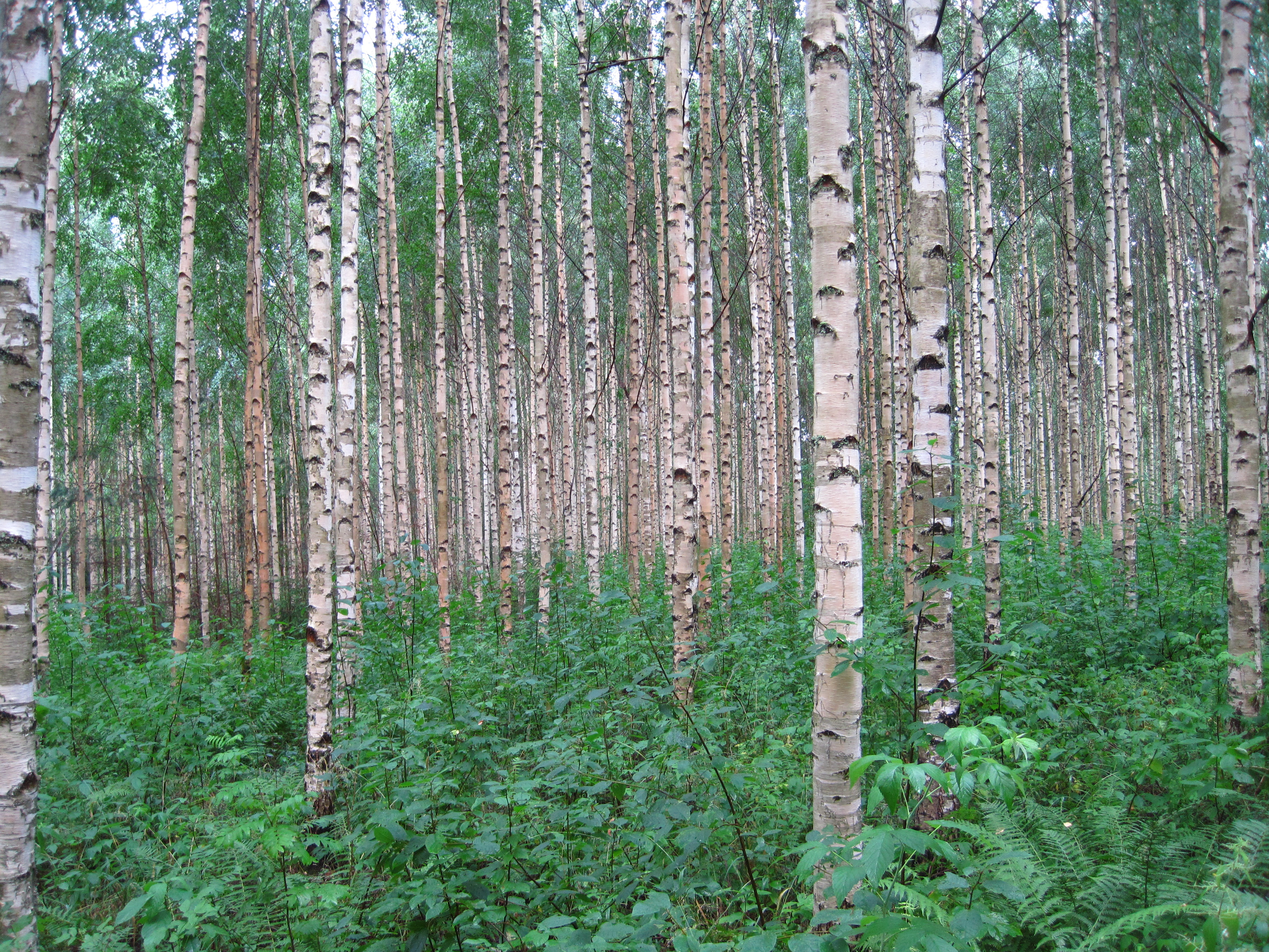 Birch tree forest in Finland.